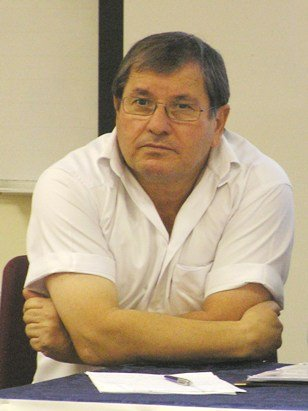 Former Israeli MK Pini Badash